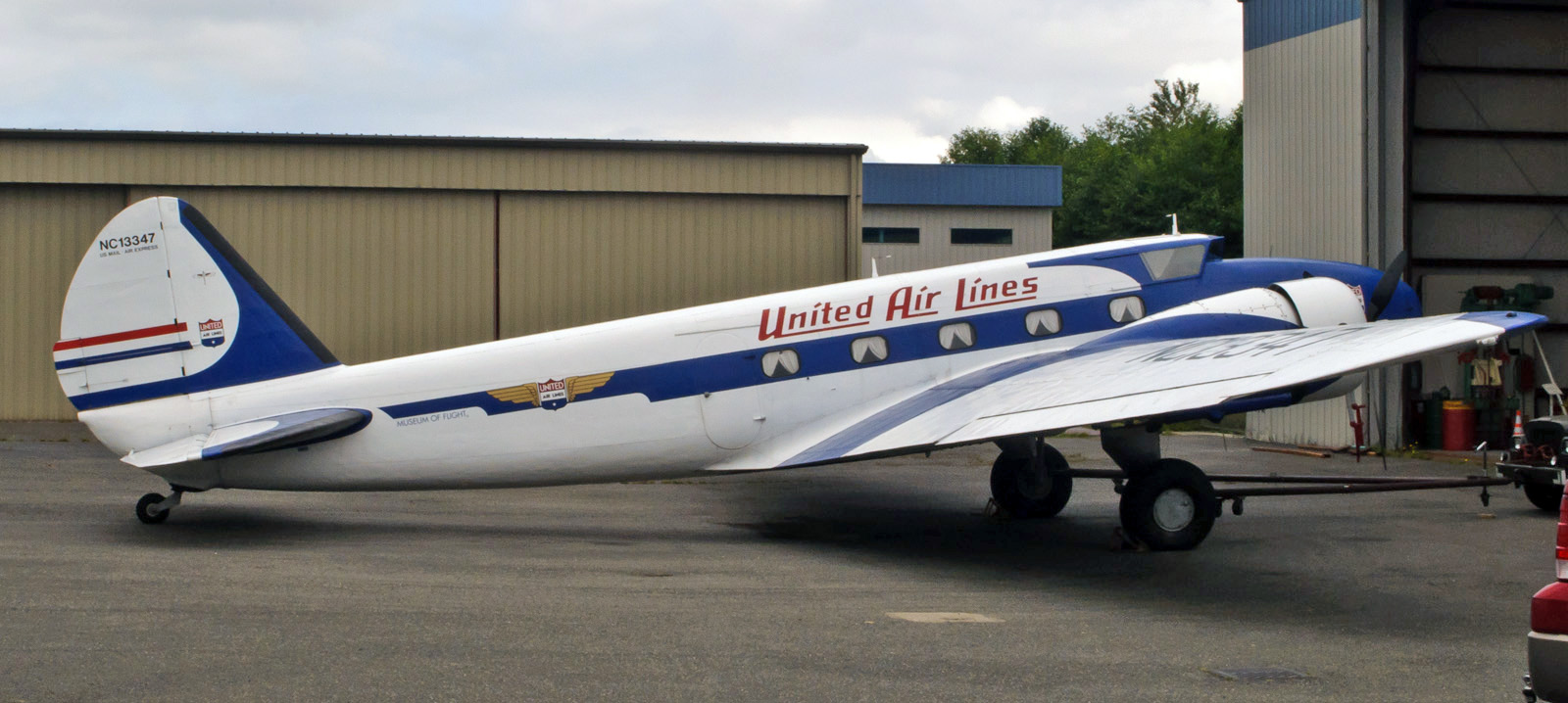 NC13347 "City of Renton," Boeing 247D. This aircraft belongs to the Museum of Flight in Seattle, and is parked at its restoration center at Paine Field in Everett. It is the last Boeing 247 in flying condition.